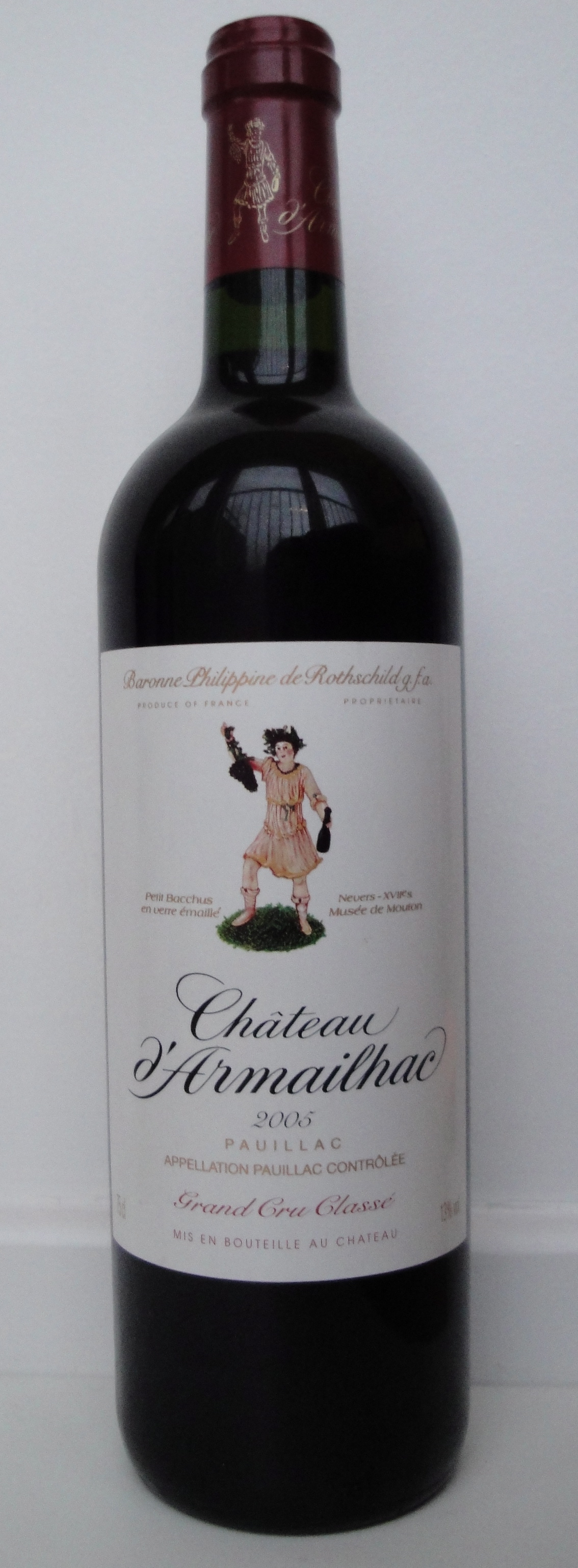 A 2005 Château d'Armailhac, a wine from Pauillac in Bordeaux, classified as a Fifth Growth in the 1855 Bordeaux classification.